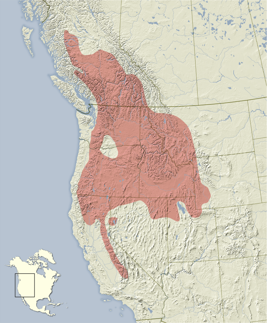 Distribution map of the yellow-pine chipmunk